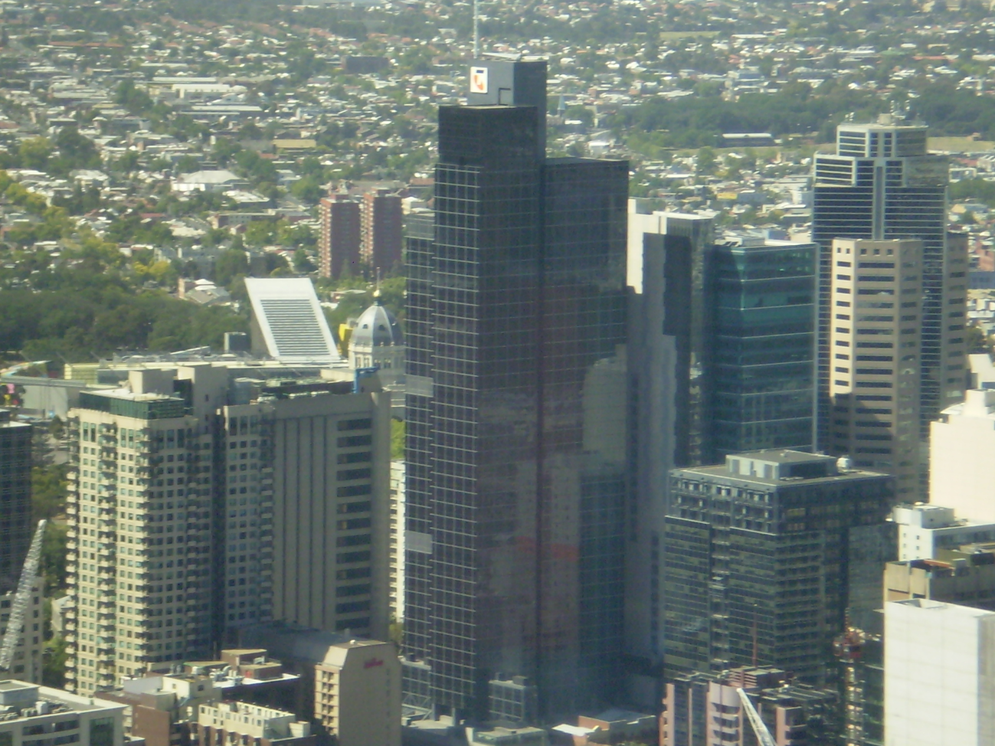 This is an image of the Telstra Corporate Centre located on Exhibition Street in Melbourne, Australia. The photo was taken using an Olympus FE-170 Digital Camera from the observation deck of the Eureka Tower (floor 88) in Southbank, Melbourne.